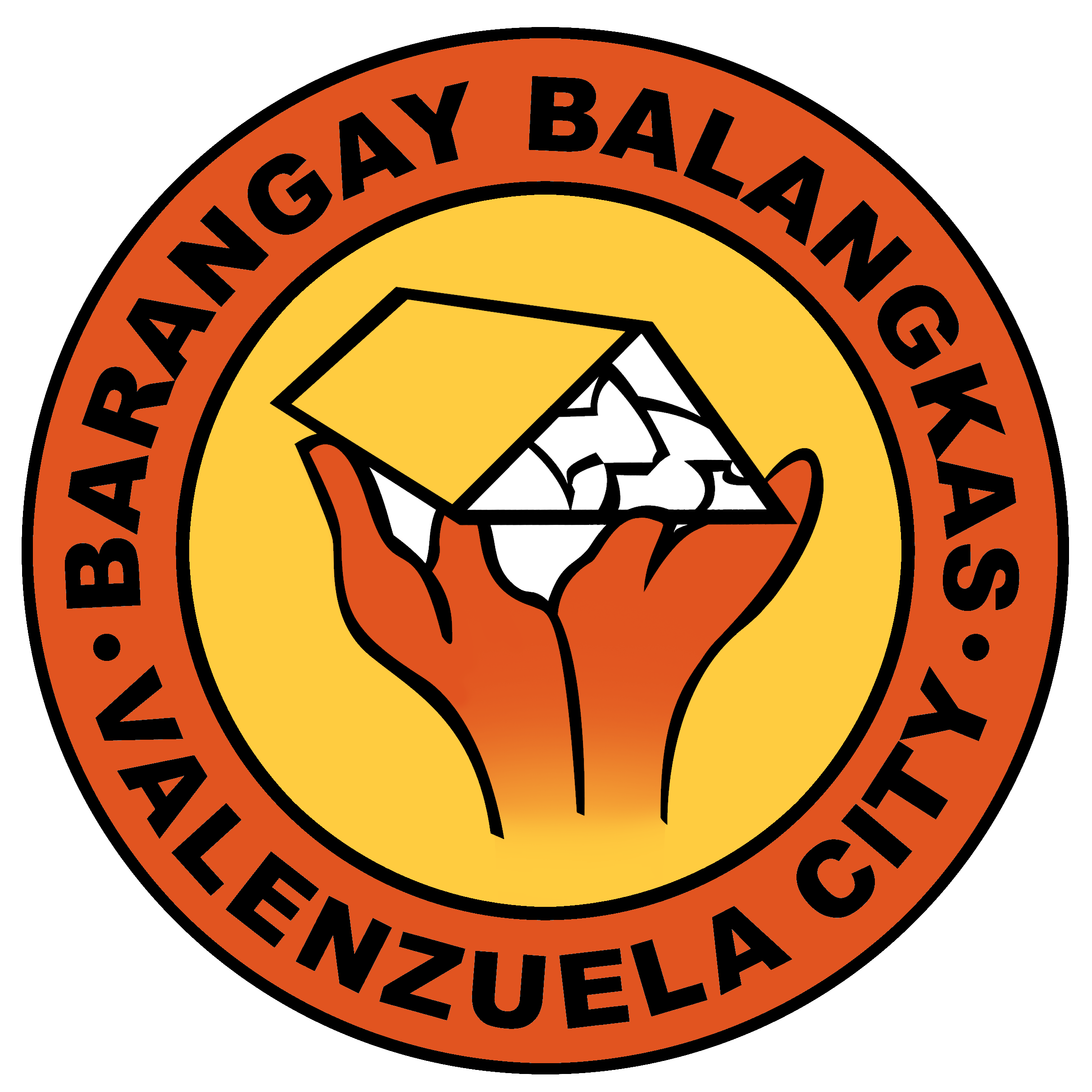 Brgy. Balangkas Seal